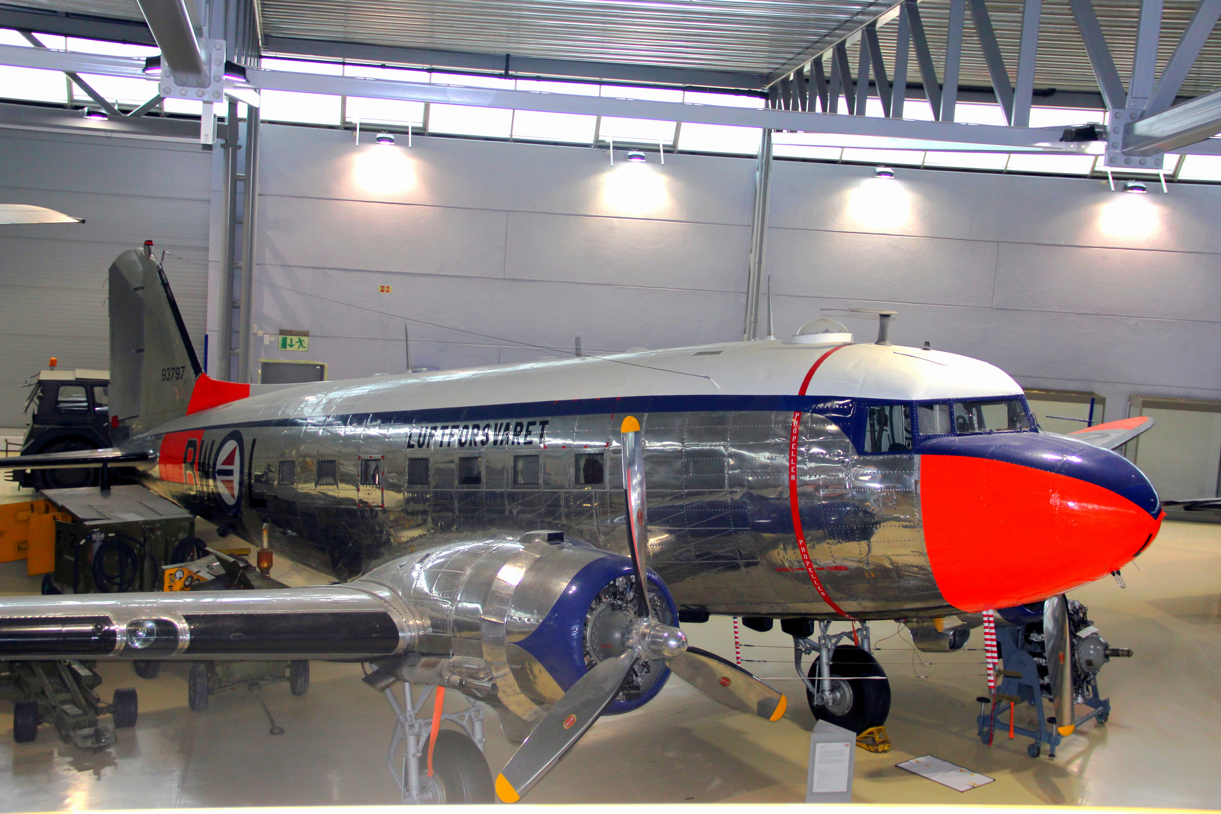 Norway's ex "Air Force One" for the King.